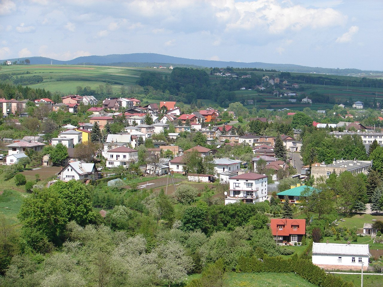 Housing estate on Słoneczna Street in Biecz